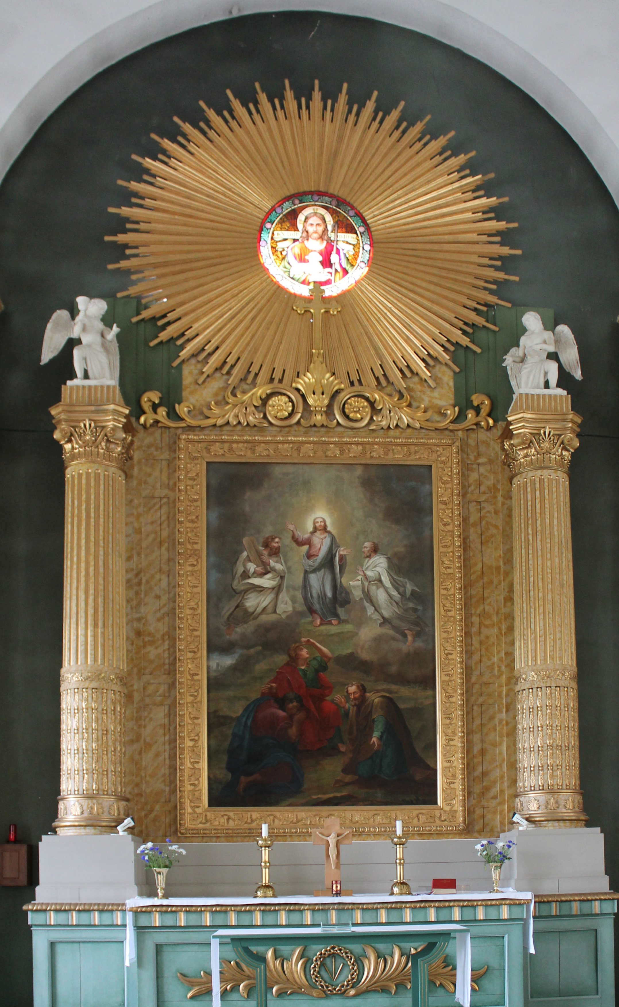 Ålem Church.